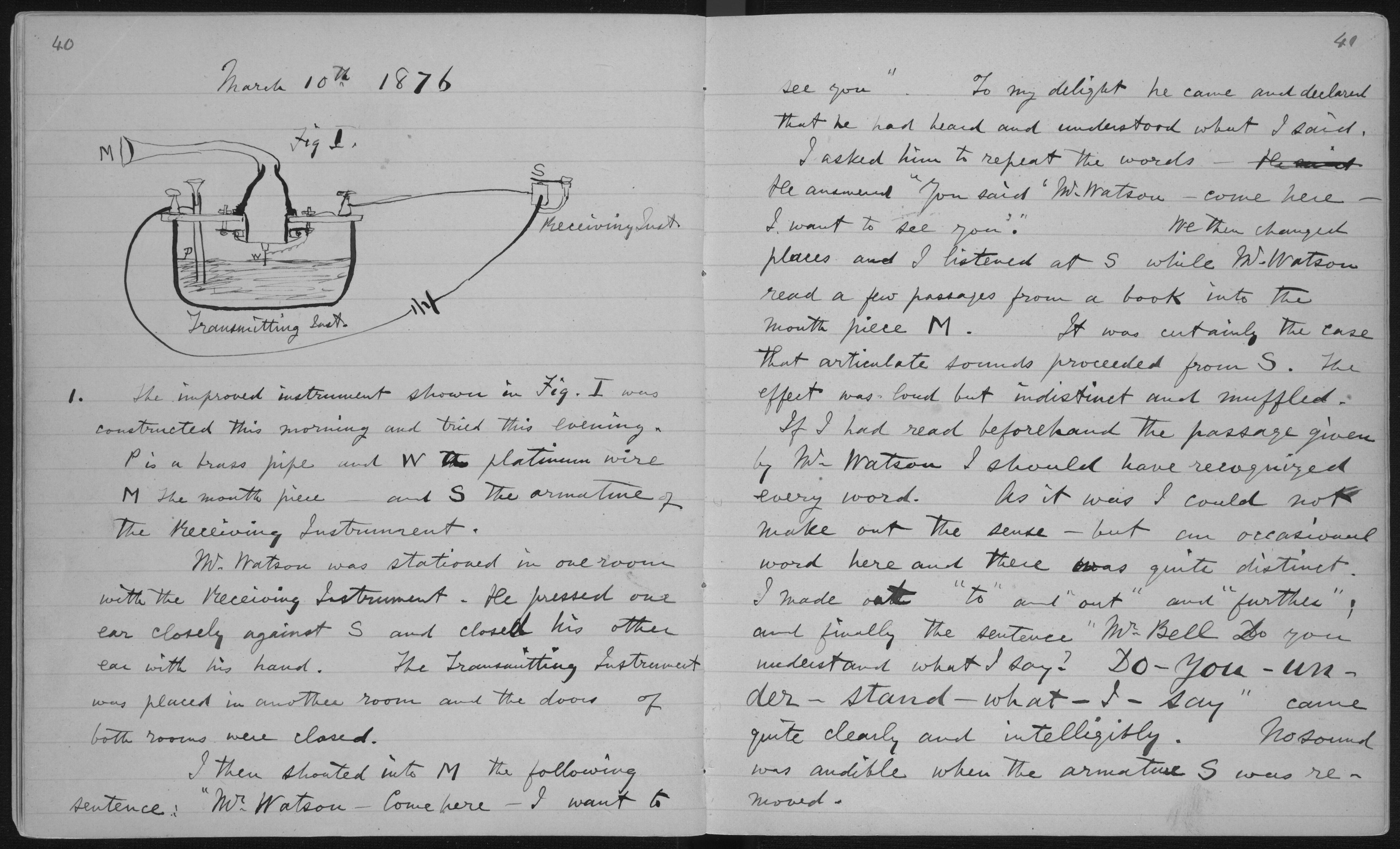 Pages 40-1 of Alexander Graham Bell's unpublished laboratory notebook (1875-76), describing first successful experiment with the telephone.